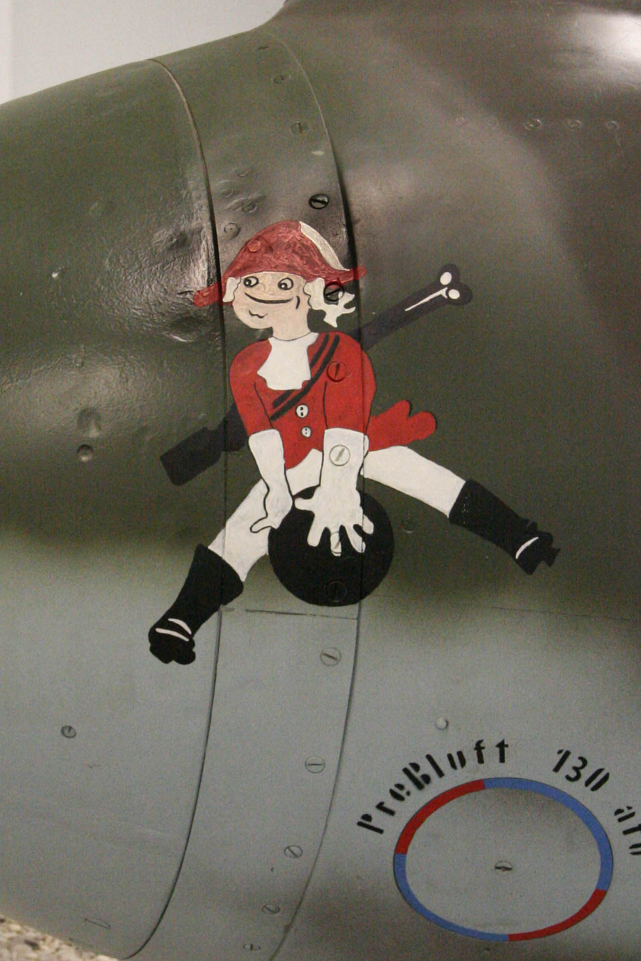 Messerschmitt Me 163 NoseArt Mascot photo by baku13, 12 Aug 2005 on display at the Luftwaffenmuseum, Berlin-Gatow Germany.